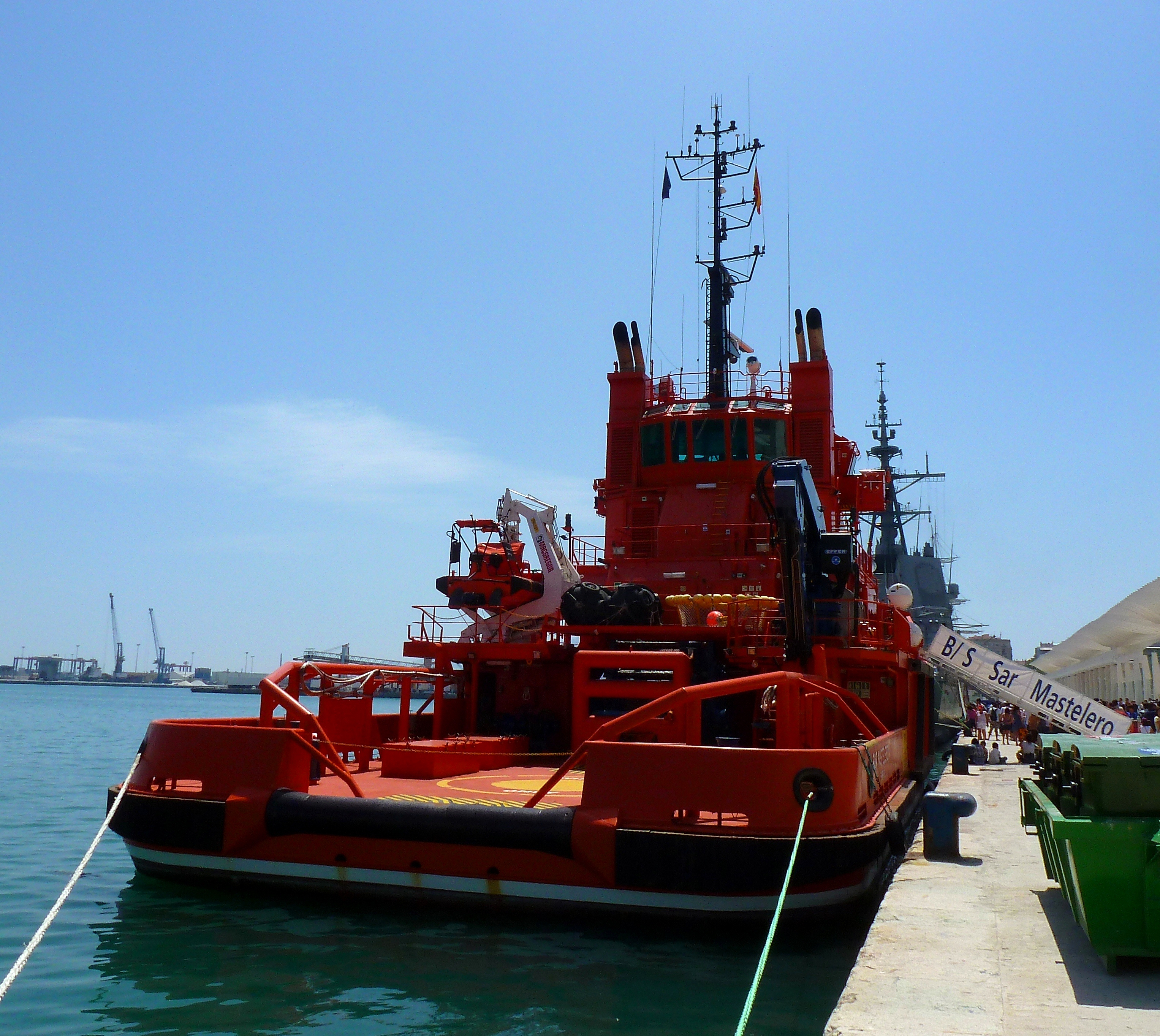 María de Maeztu class tug "SAR Mastelero" of the Spanish Sea Rescue and Safety Society.